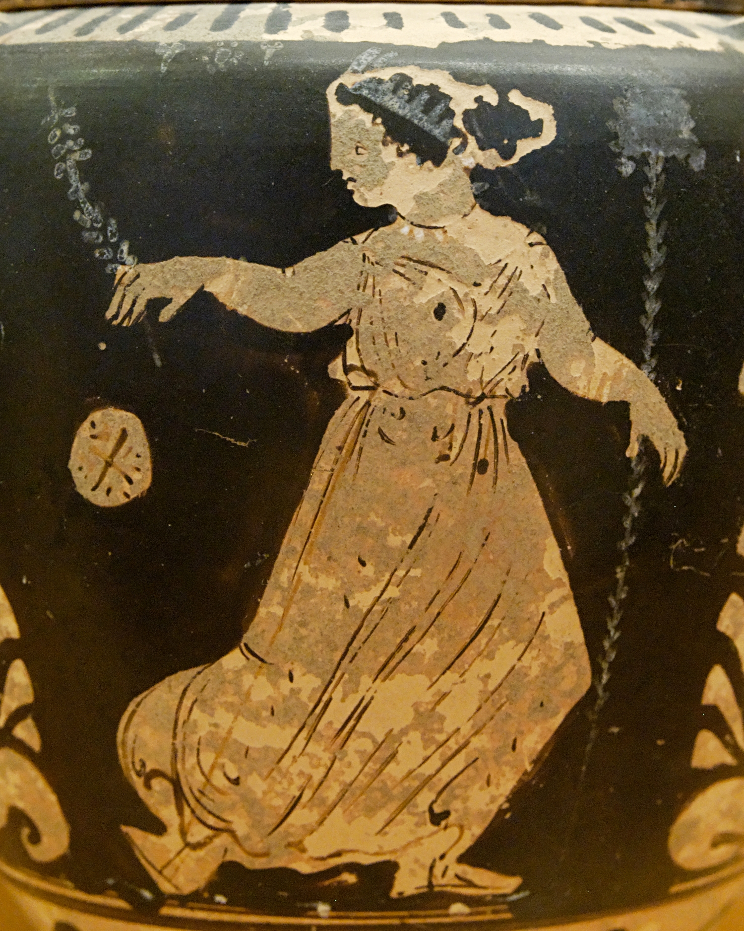 Woman playing with a ball. Sicilian red-figure lebes gamikos, 340–320 BC.